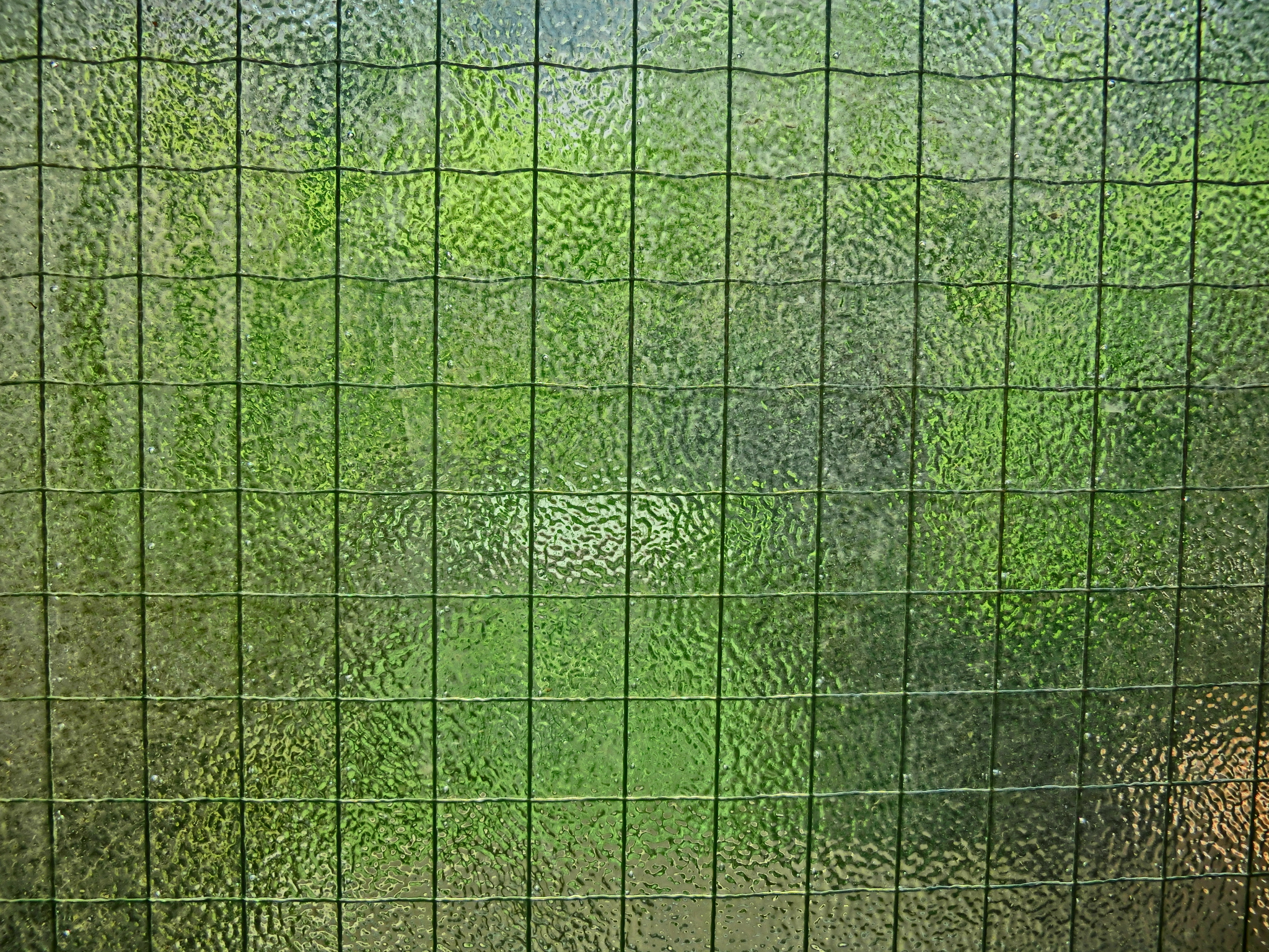 鋁窗 玻璃窗